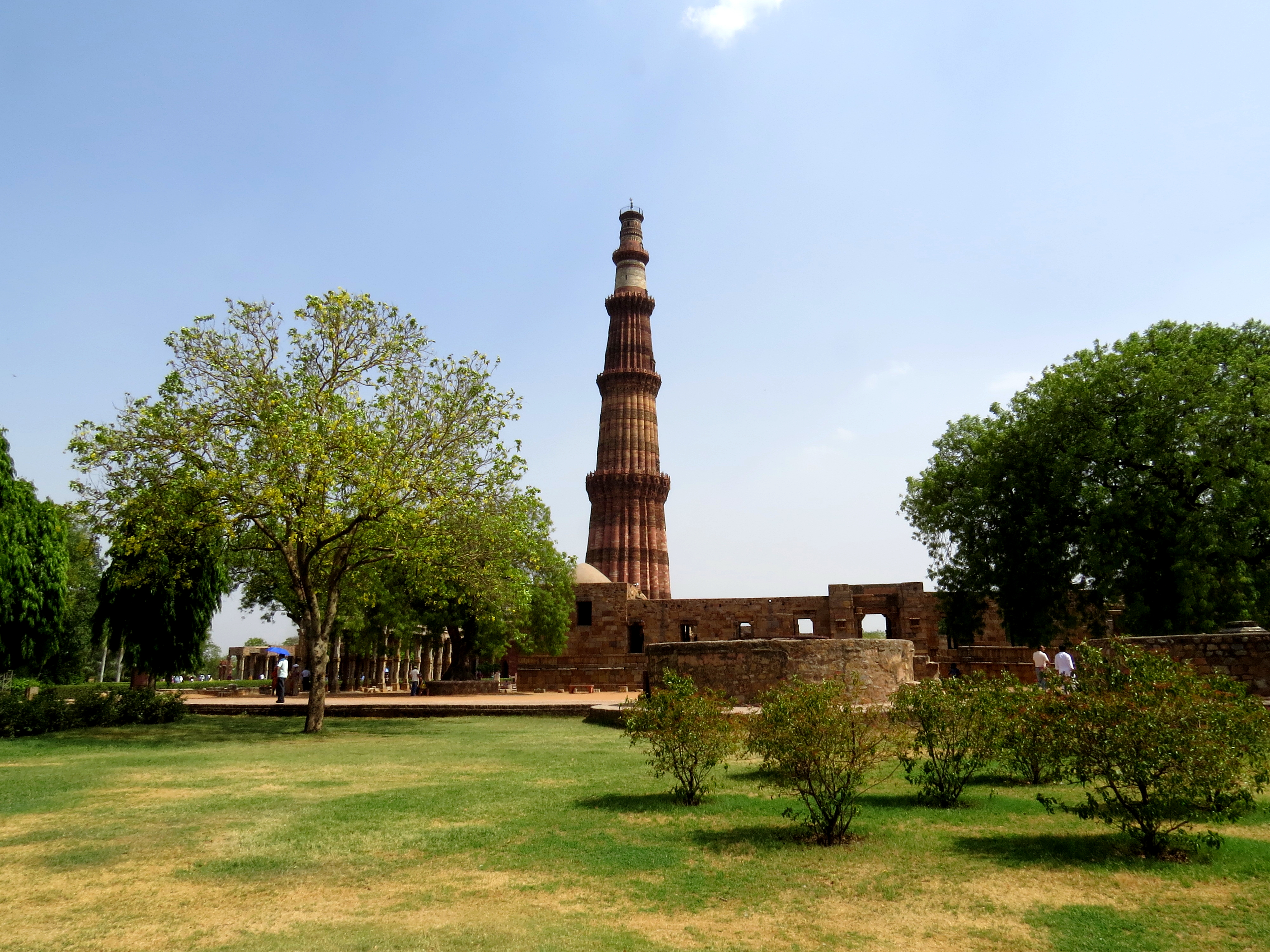 a perfectly picture taken with greenery of Qutb Minar which is situated in Delhi. It is historical place with many secret behind it.